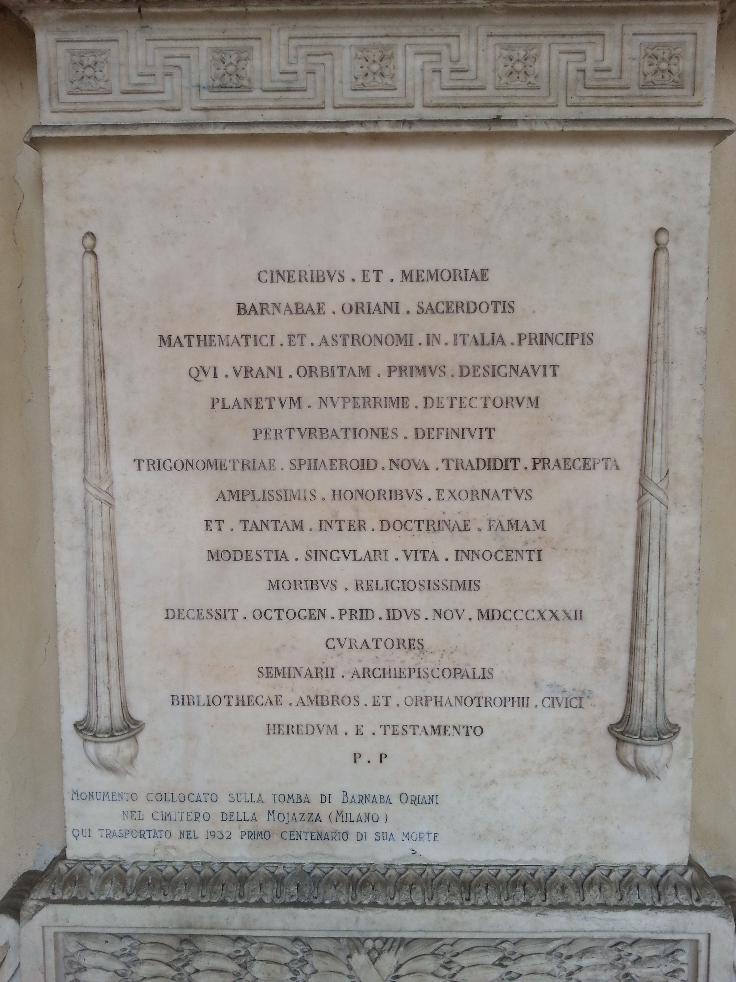 The gravestone in honor of Barnaba Oriani in the Chartreuse of Garegnano